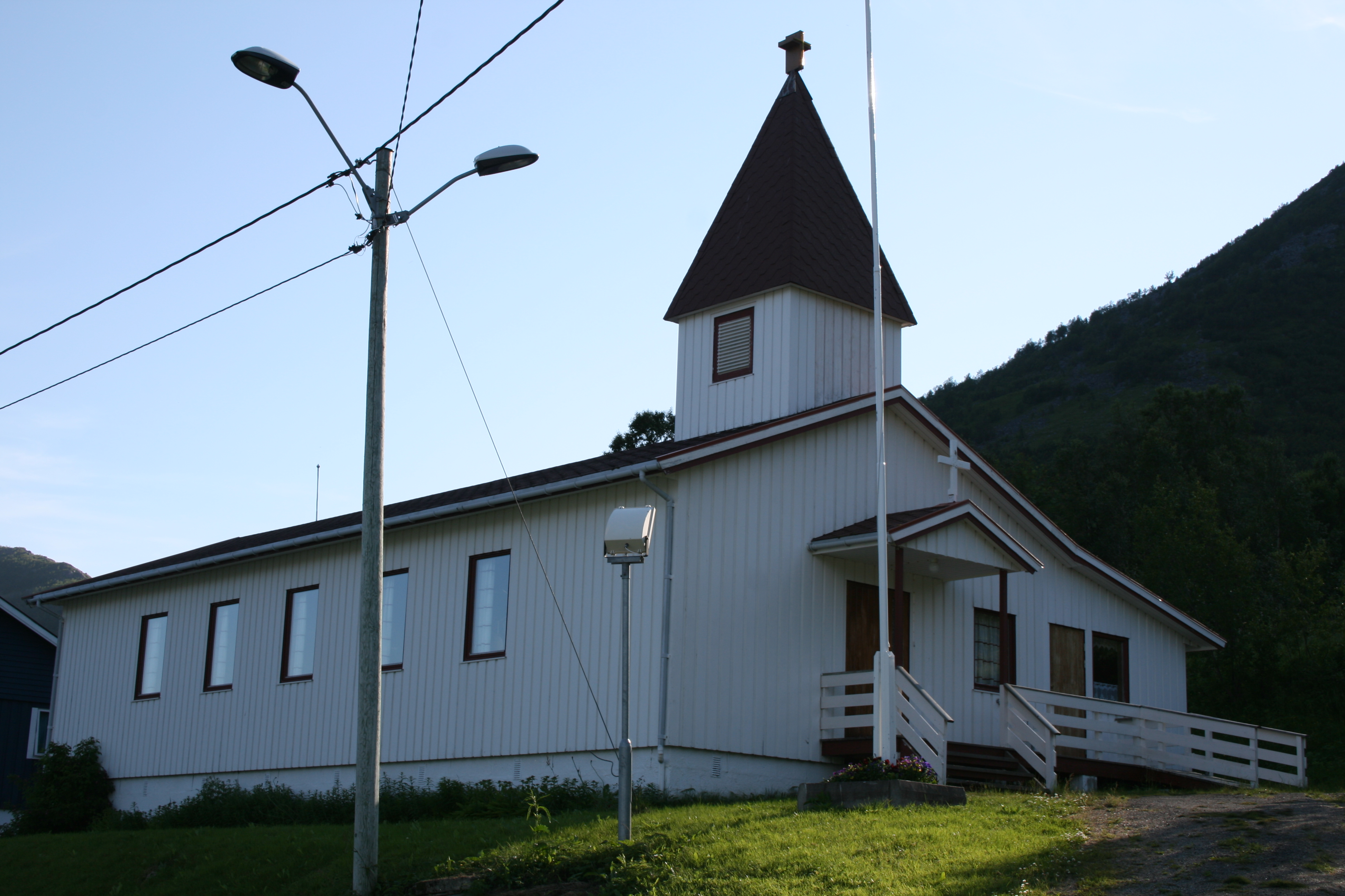 The chapel in Fjordgard